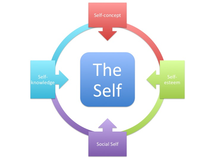 One's self perception is defined by their self-concept, self-knowledge, self-esteem and social self.